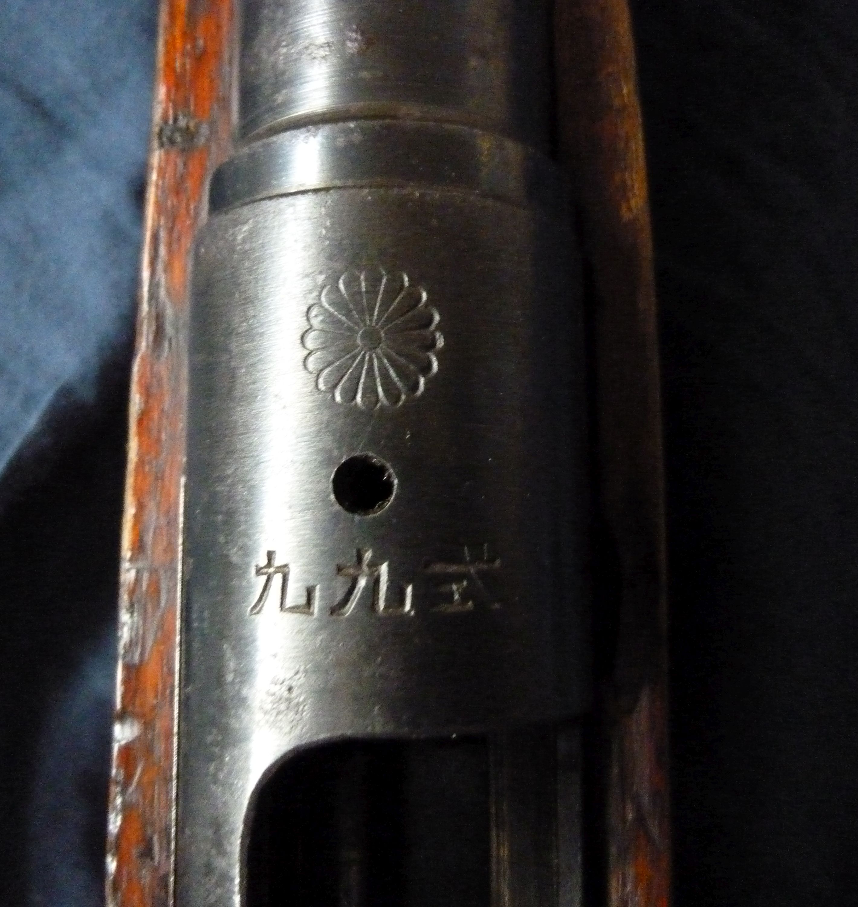 Type 99 with intact 16 petal chrysanthemum (the sigh for the Japanese royal family). The three Japanese letters translate to "Type 99." Note the 1 vent hole opposed to 2 like the Type 30 or Type 38.